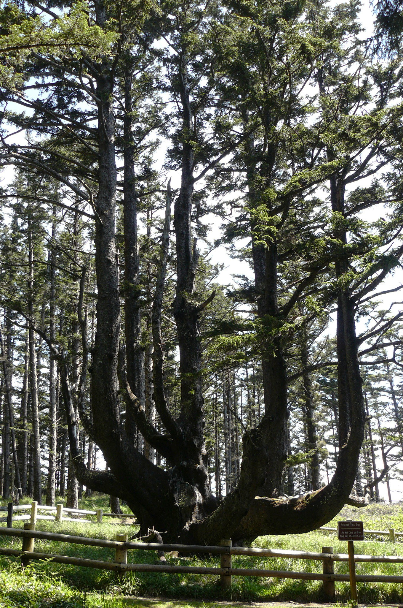 Sitka Spruce shaped as octopus, seen in Cape Meares State Park, Oregon.